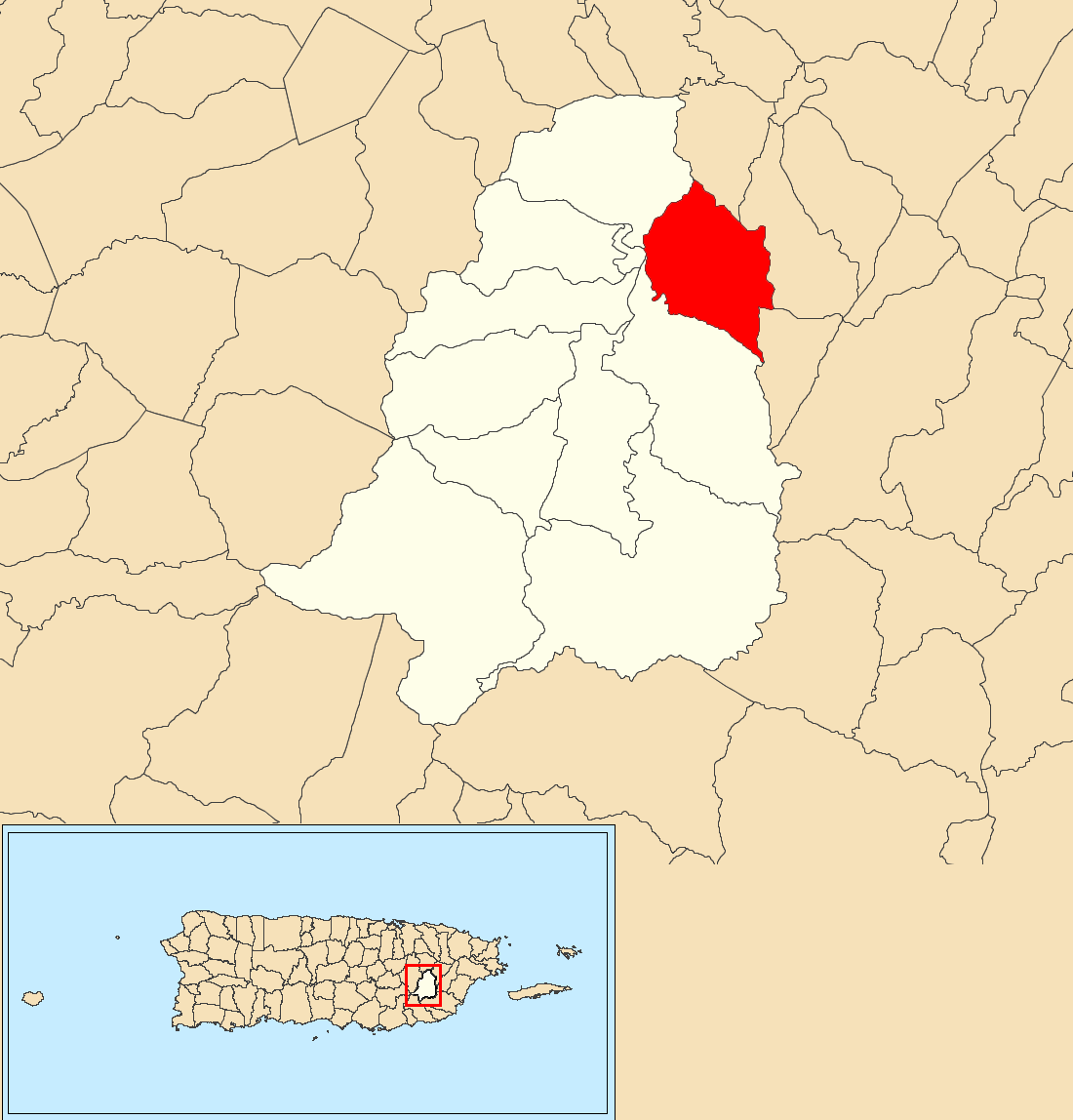 Florida, San Lorenzo, Puerto Rico locator map